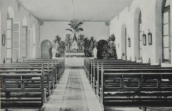 The chapel at the Institute of the Franciscan Sisters